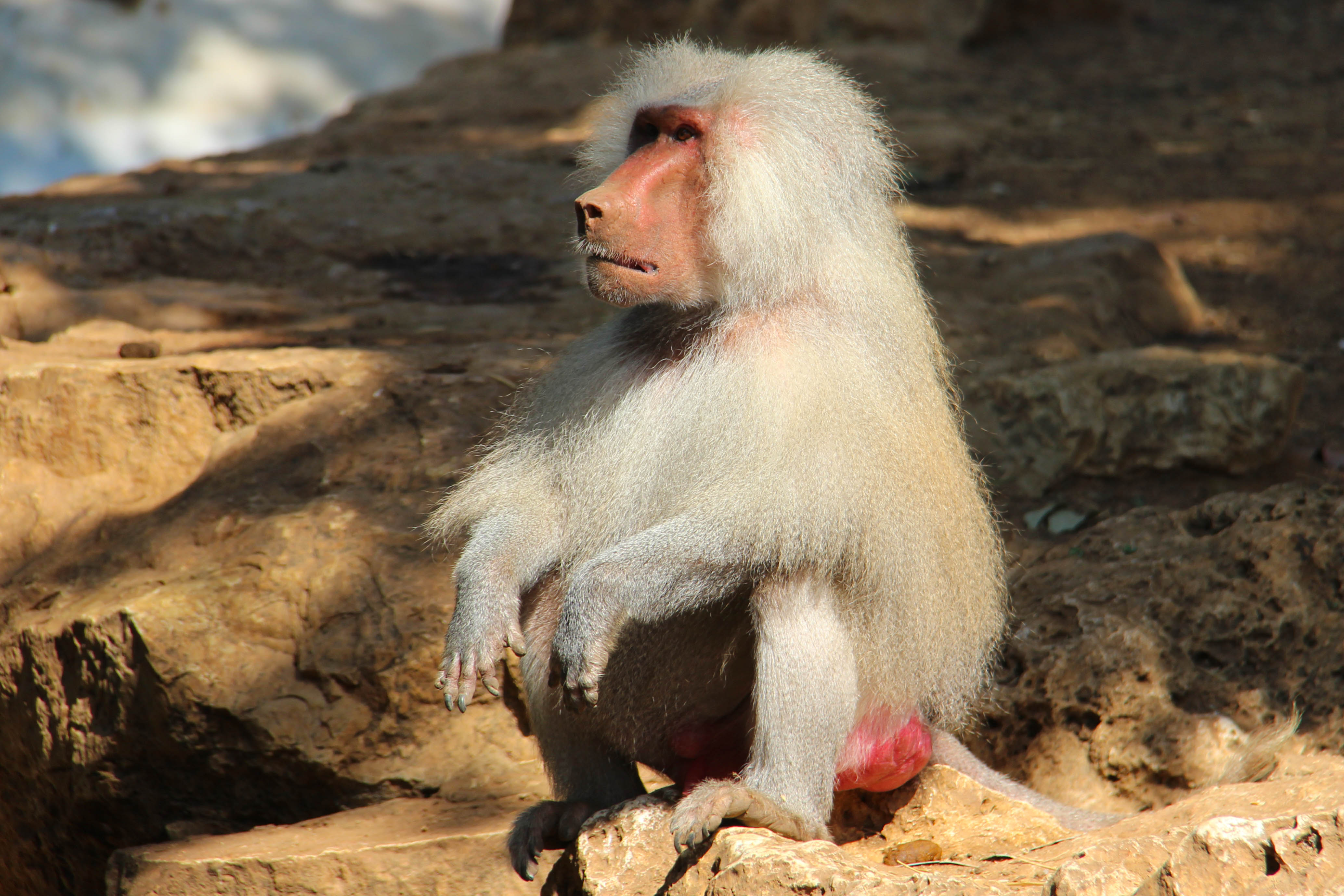 Hamadryas baboon